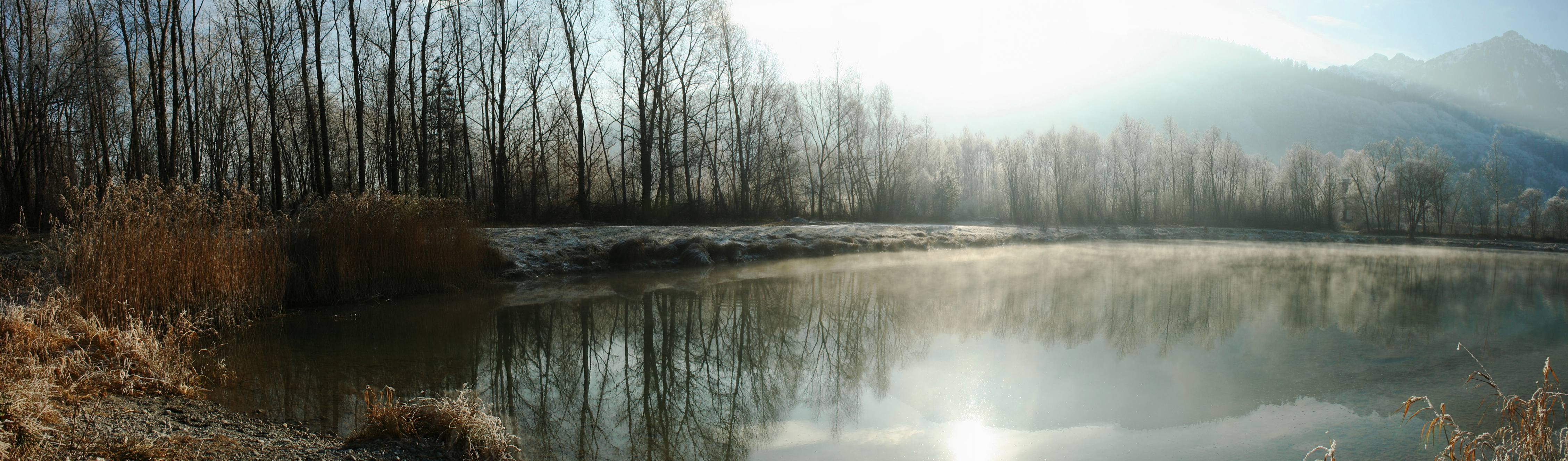 Mist, Cold Morning in Austria